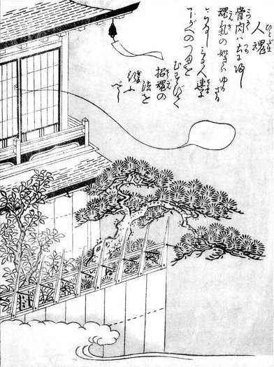 Hitodama (人魂, a fireball-ghost that appears when someone dies) from the Konjaku Gazu Zoku Hyakki (今昔画図続百鬼)